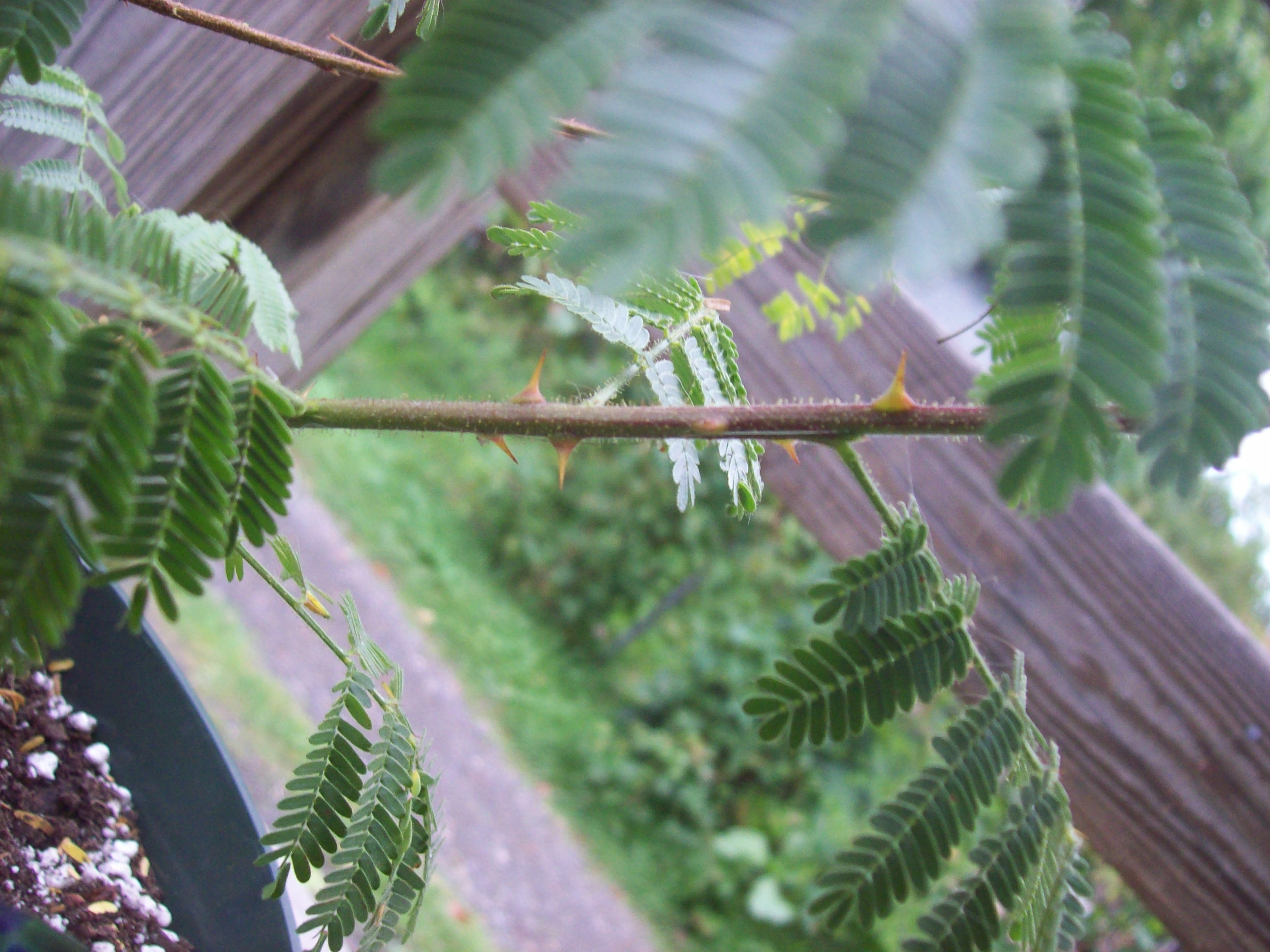 Mimosa tenuiflora syn. Mimosa hostilis thorns